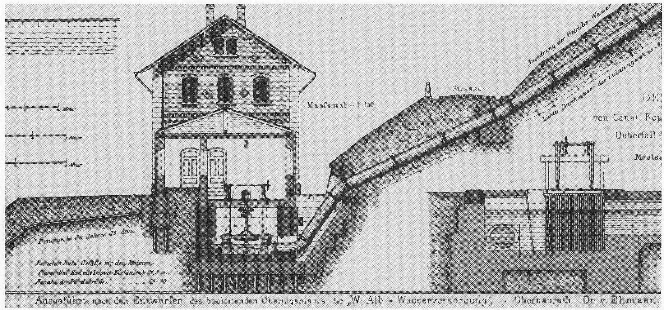 Swabian Alb, drinking water supply, plan of a pumping station (Eybtal), using a turbine precursor